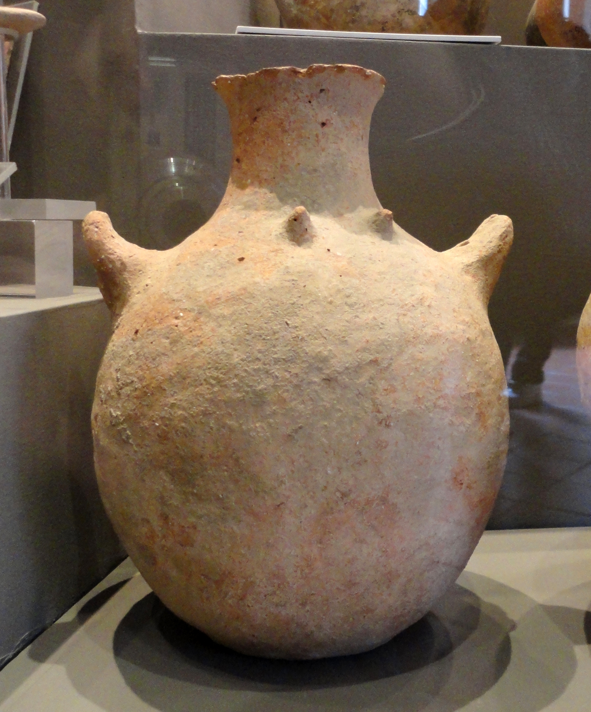 Double handled jar, Early Bronze, 13,200-3000 B.C. From the Necropolis of Jericho, vatican museum, rome.